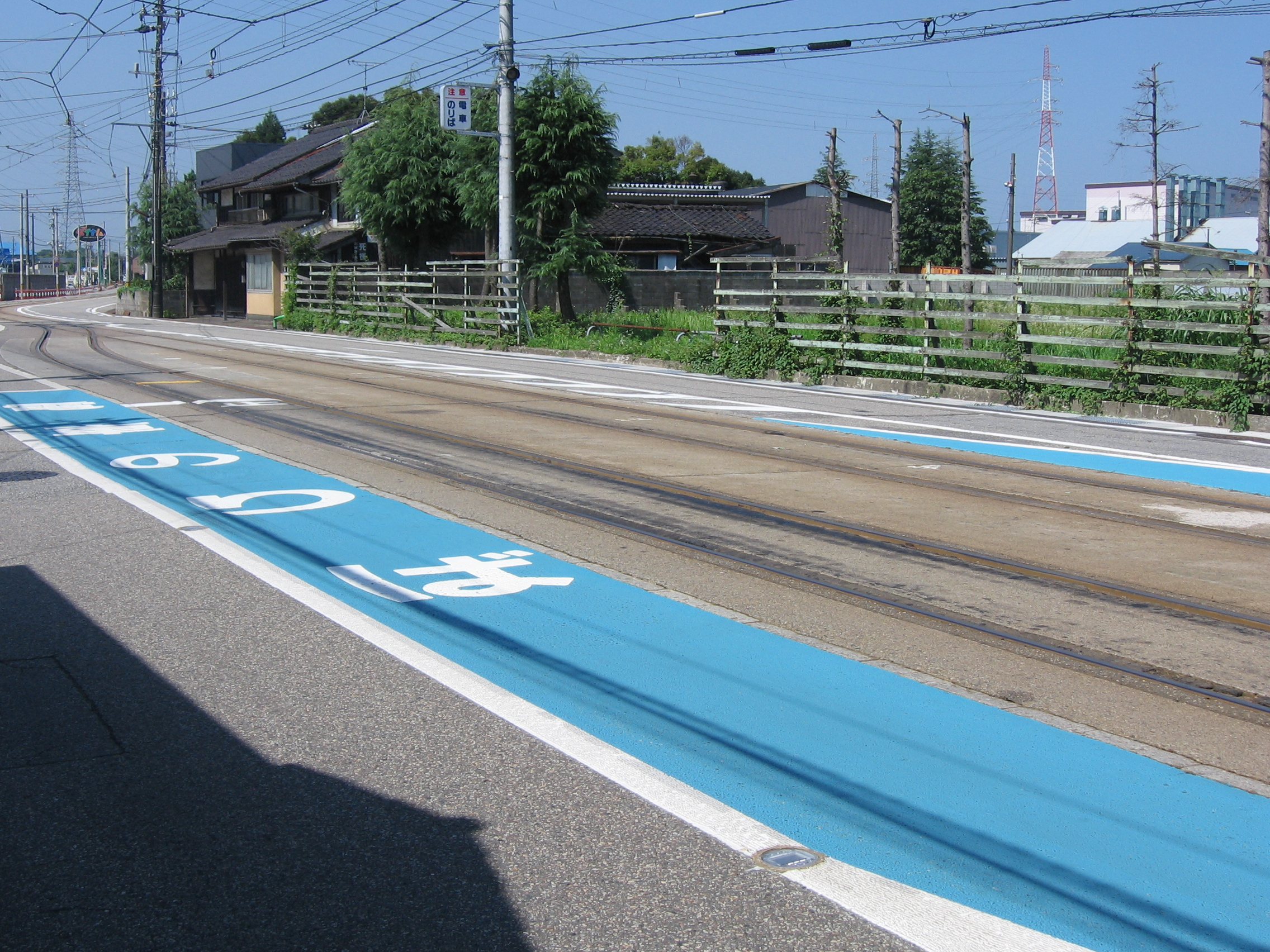 The platform of Shin Yoshihisa Station of Takaoka Tram Line of Manyosen. In Yoshihisa, Takaoka, Toyama, Japan.